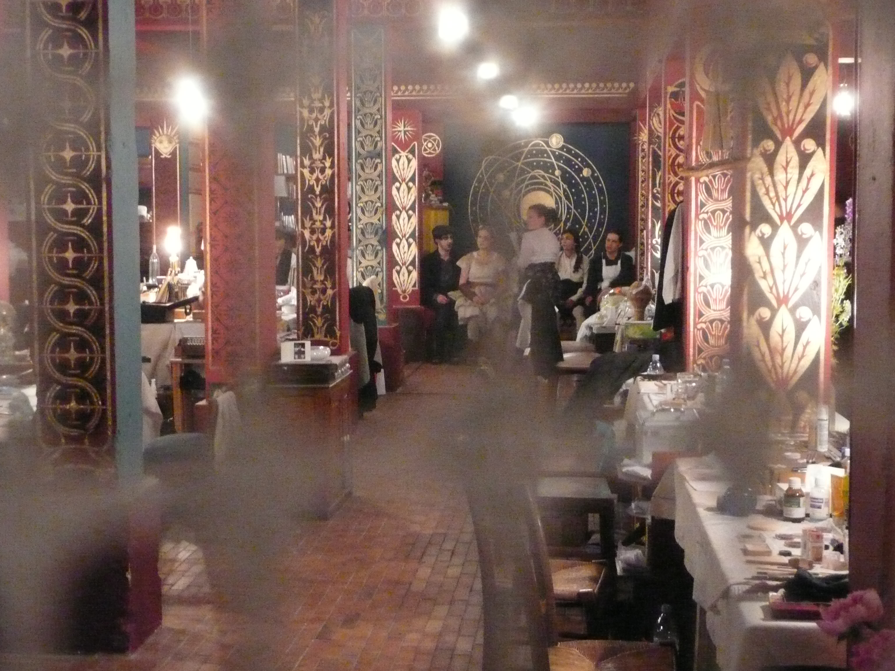 Coulisses du Théâtre du Soleil d'Ariane Mnouchkine (Paris, France) le dimanche 27 juin 2010, à l'occasion du spectacle Les Naufragés du Fol Espoir (Aurores).